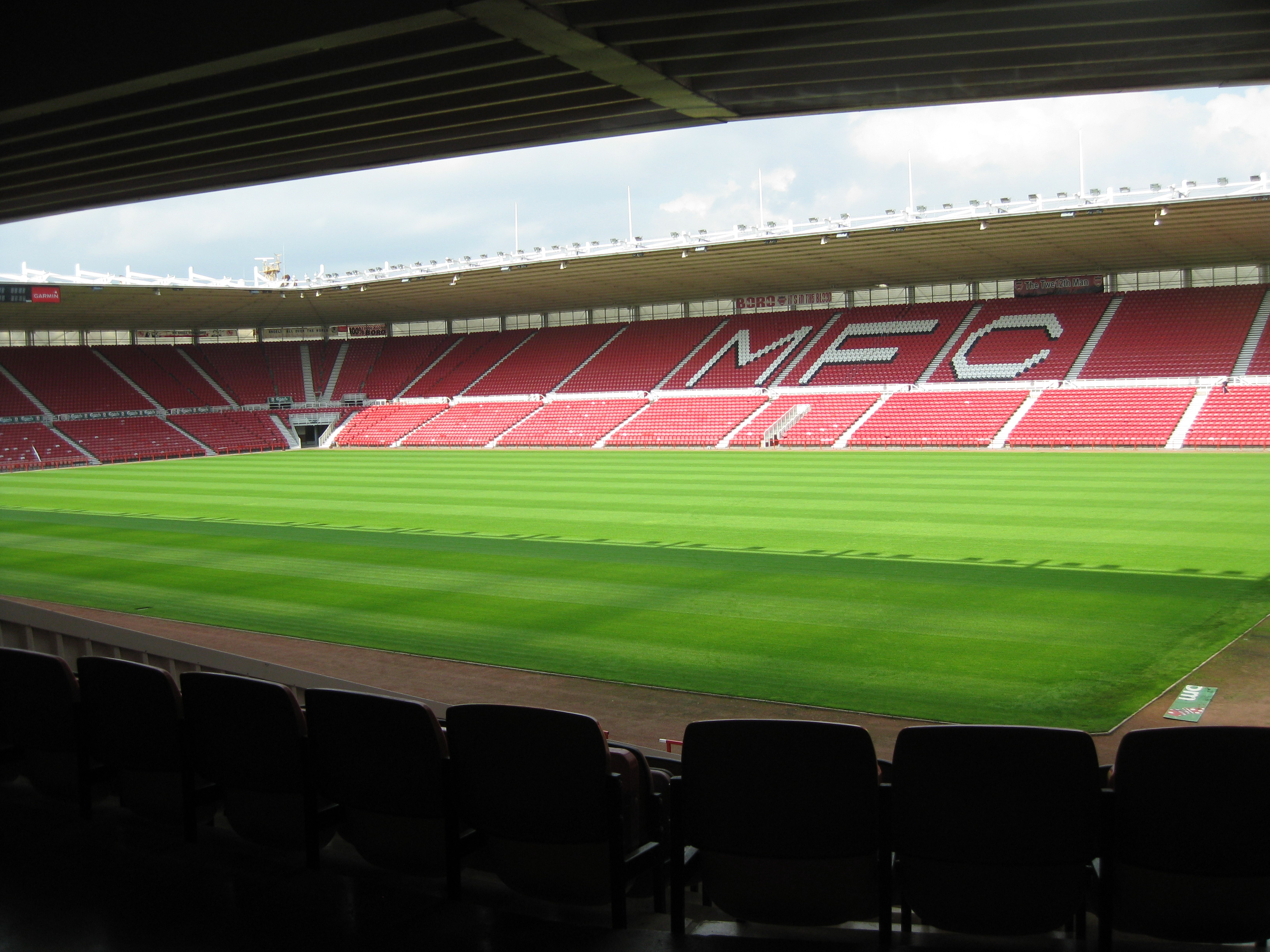 Riverside Stadium - football ground of Middlesbrough F. C..